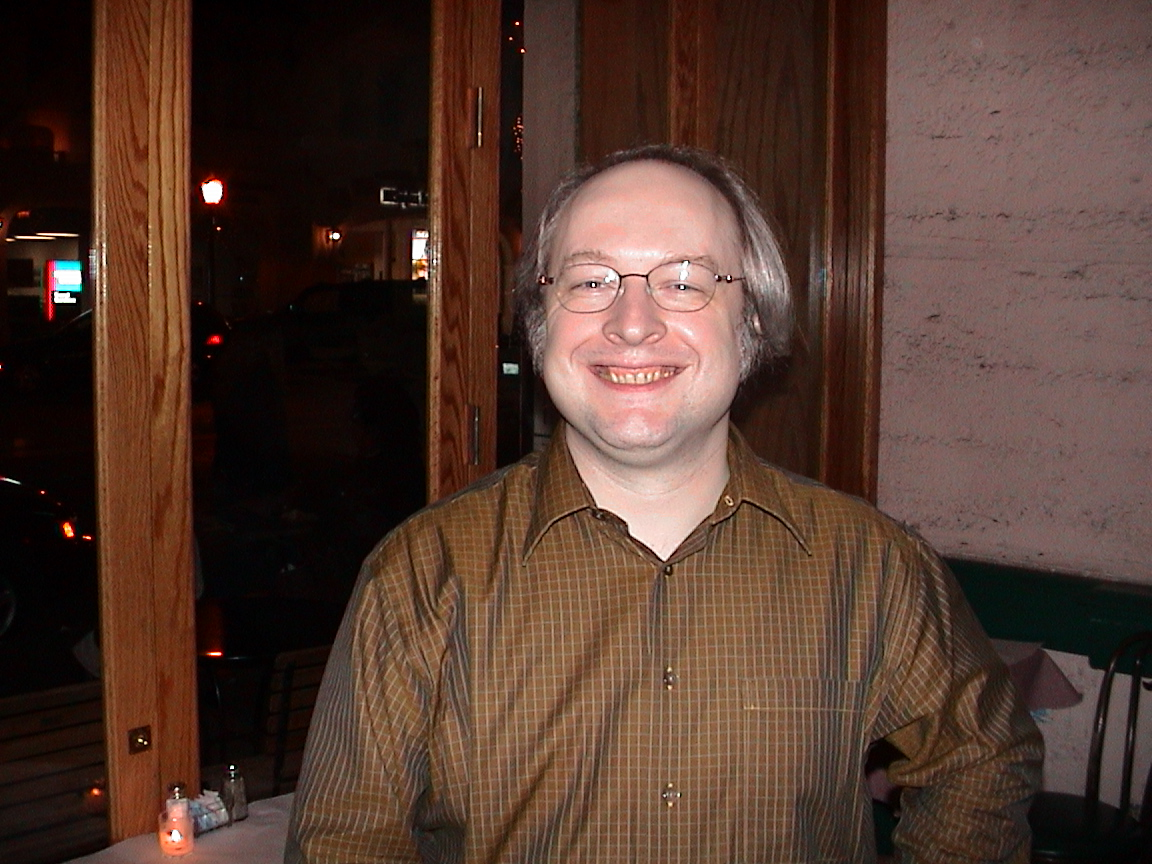 Jakob Nielsen, web usability consultant.DSC00101.JPG